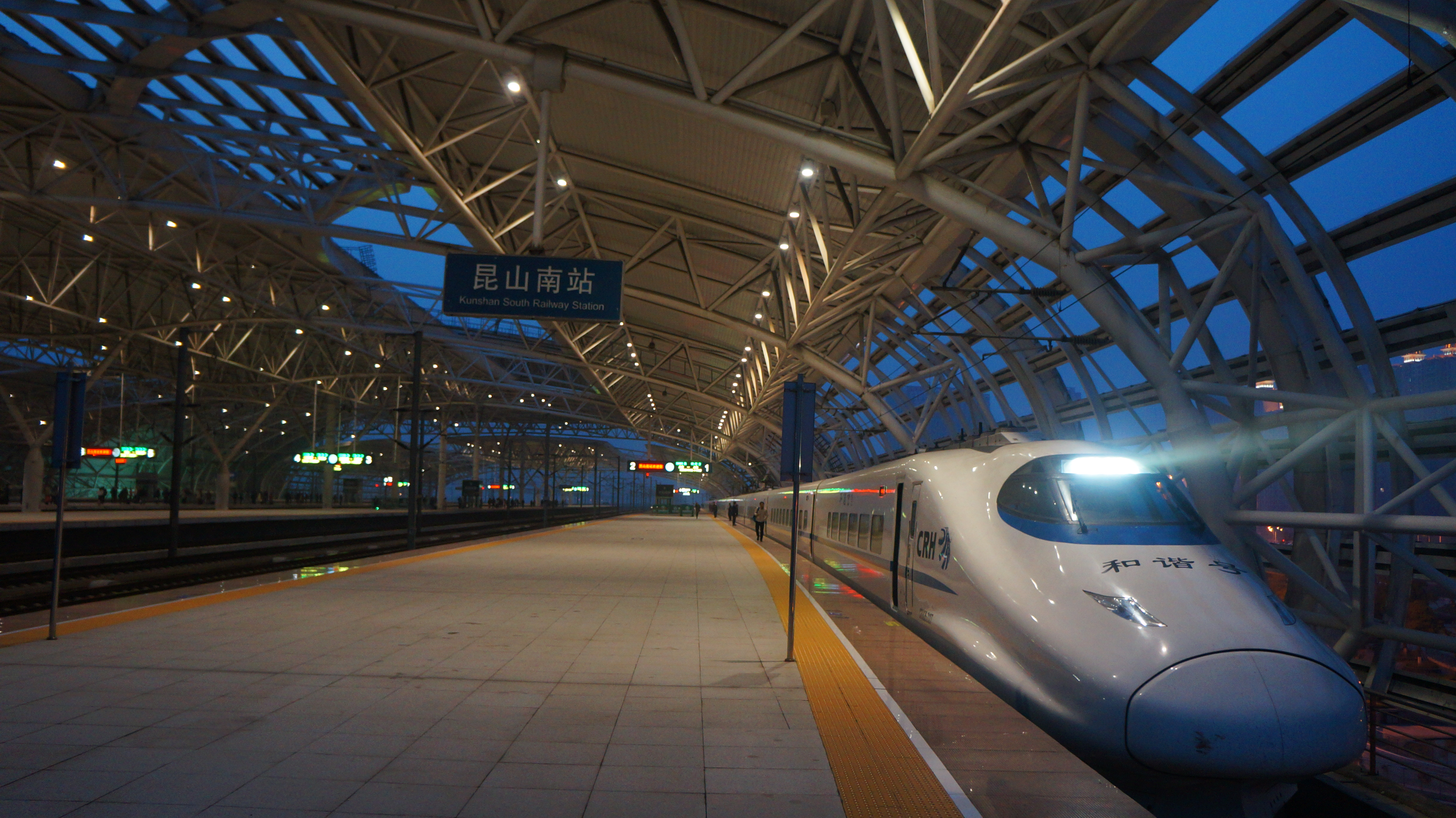 CRH2E at Kunshannan Railway Station